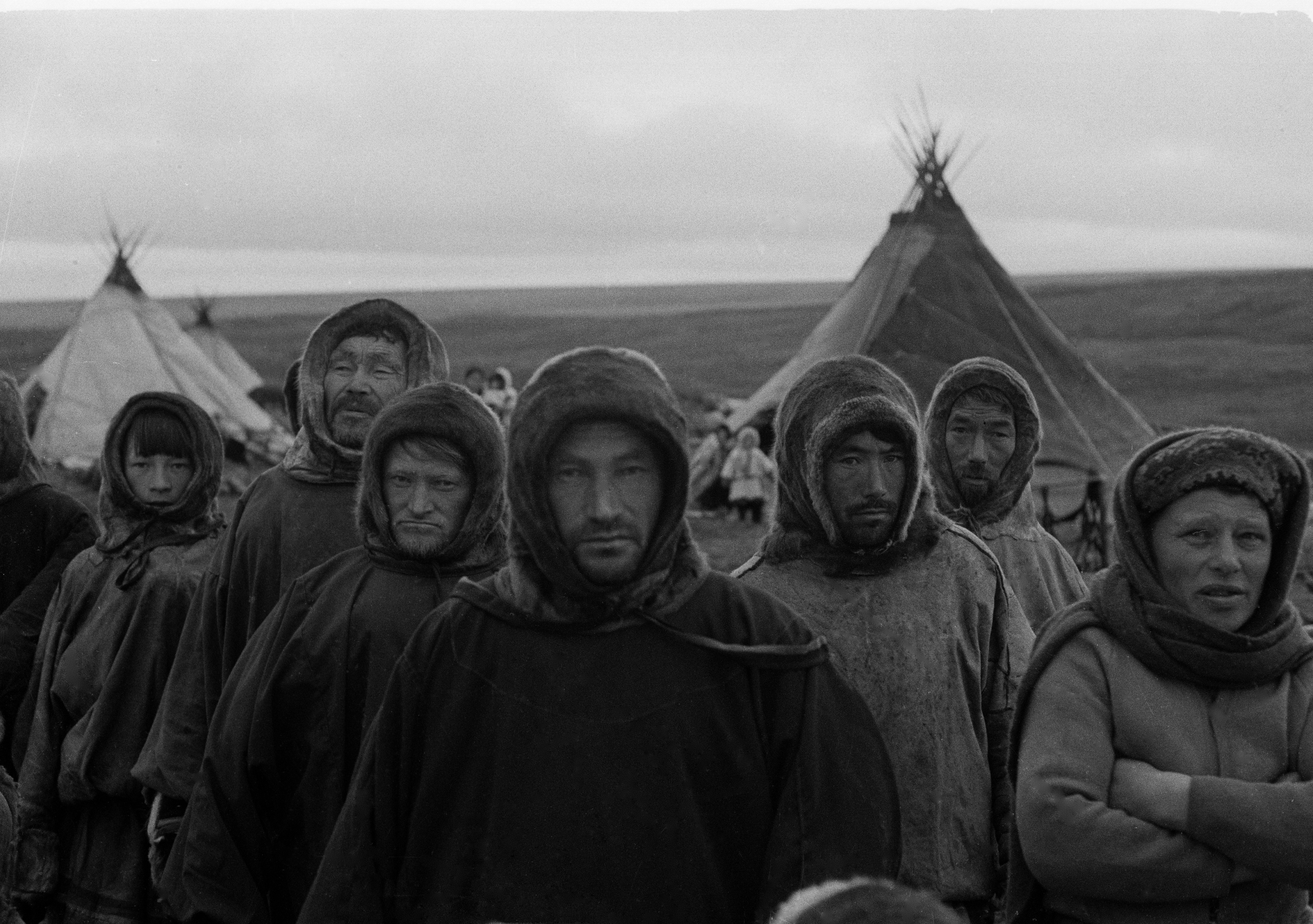 Reindeer breeders on the Baydaratskaya tundra on the Yamal Peninsula in northern Siberia. Victor Zagumyonnov later recalled that he made this picture while on assignment with a group of journalists to document the use of aviation in the national economy. World Press Photo 1980 Photo Contest, General News, Singles, 2nd prize.